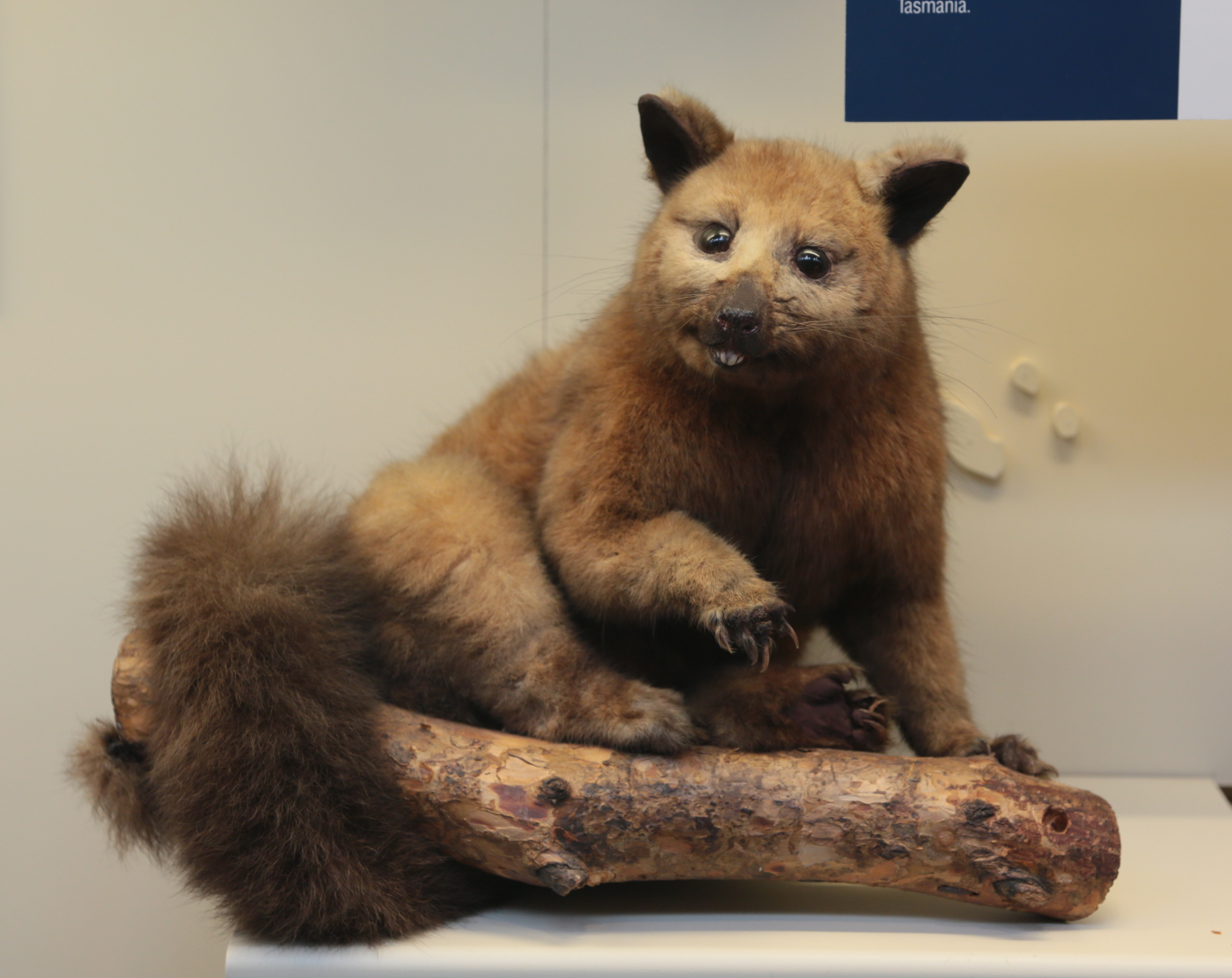 Common brushtail possum (Trichosurus vulpecula), Natural History Museum, London, Mammals Gallery